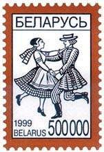 Stamp of Belarus